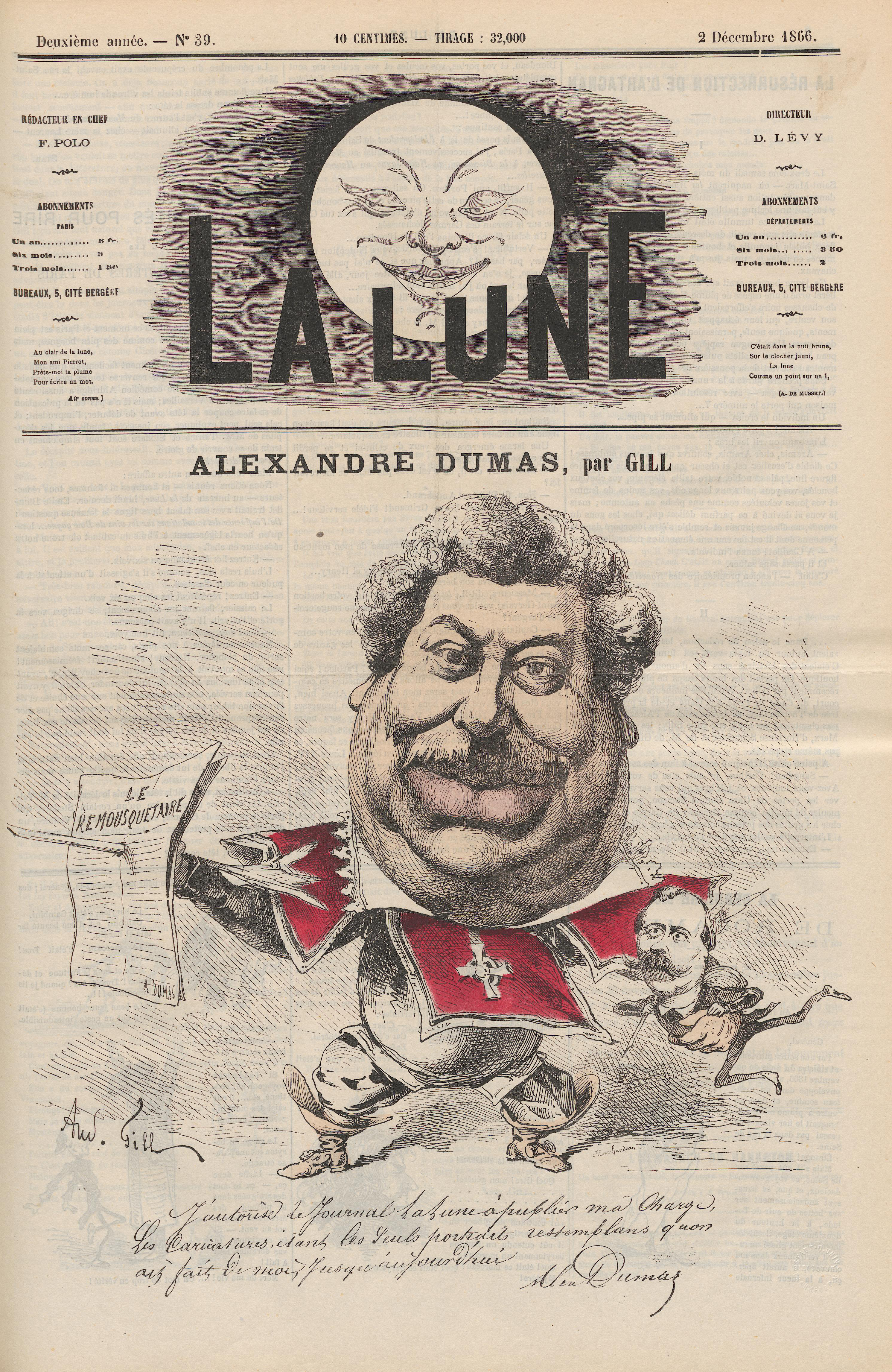 Caricature of Alexandre Dumas Cover of La Lune 2 December 1866 Hand-colored Engraving 11"w x 17 1/2"h